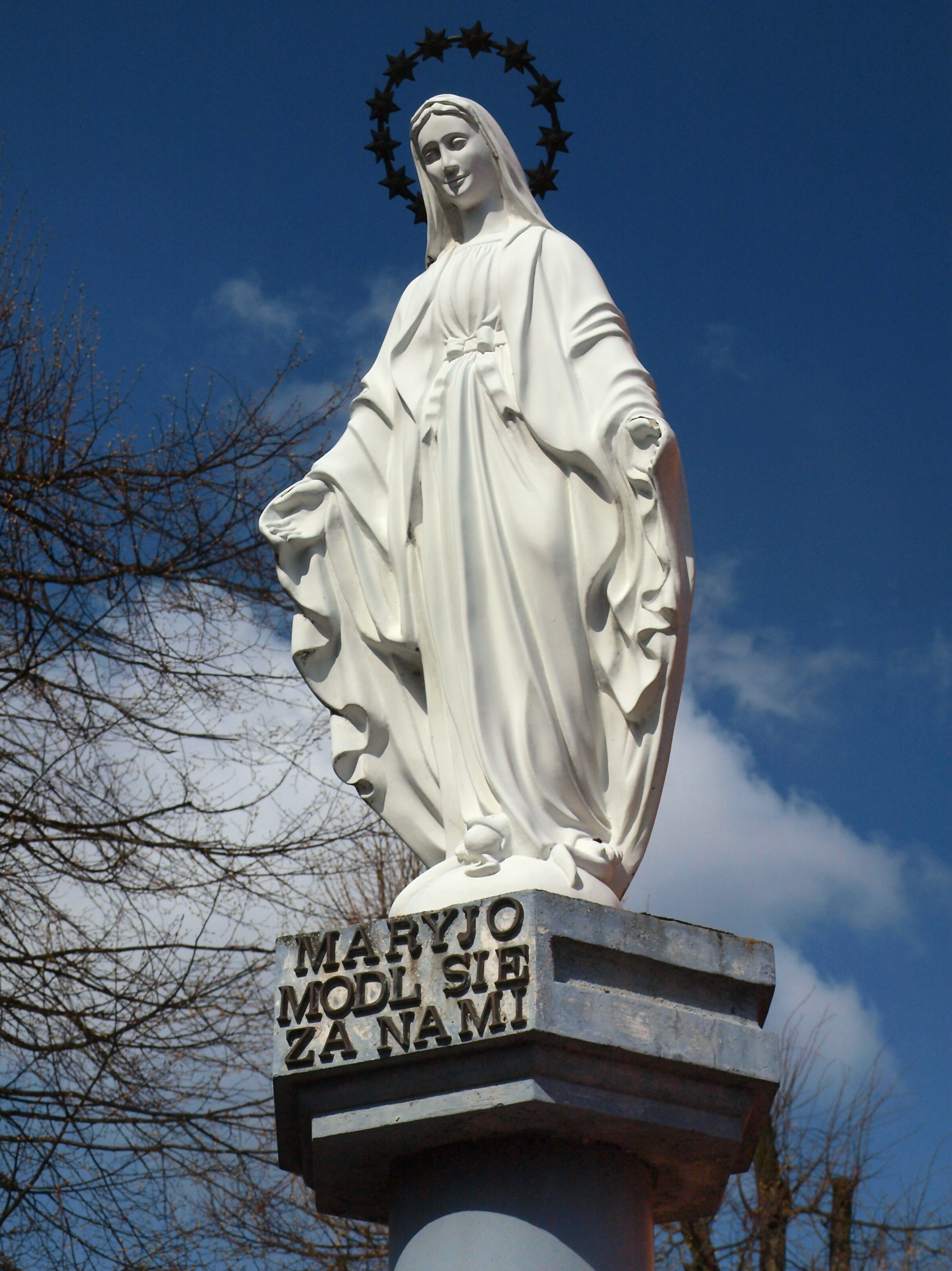 Samocice, courtyard of parish church of St. Bartholomew, Our Lady of the Immaculate Conception